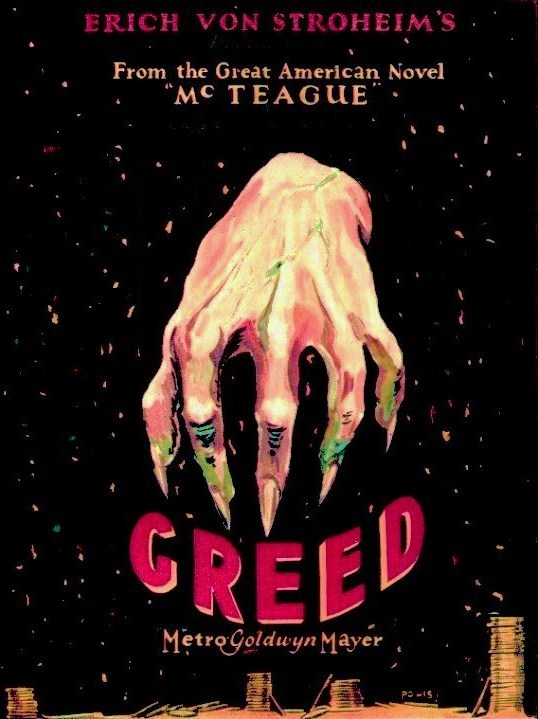 Poster for the 1924 film Greed, distributed by Metro-Goldwyn-Mayer.